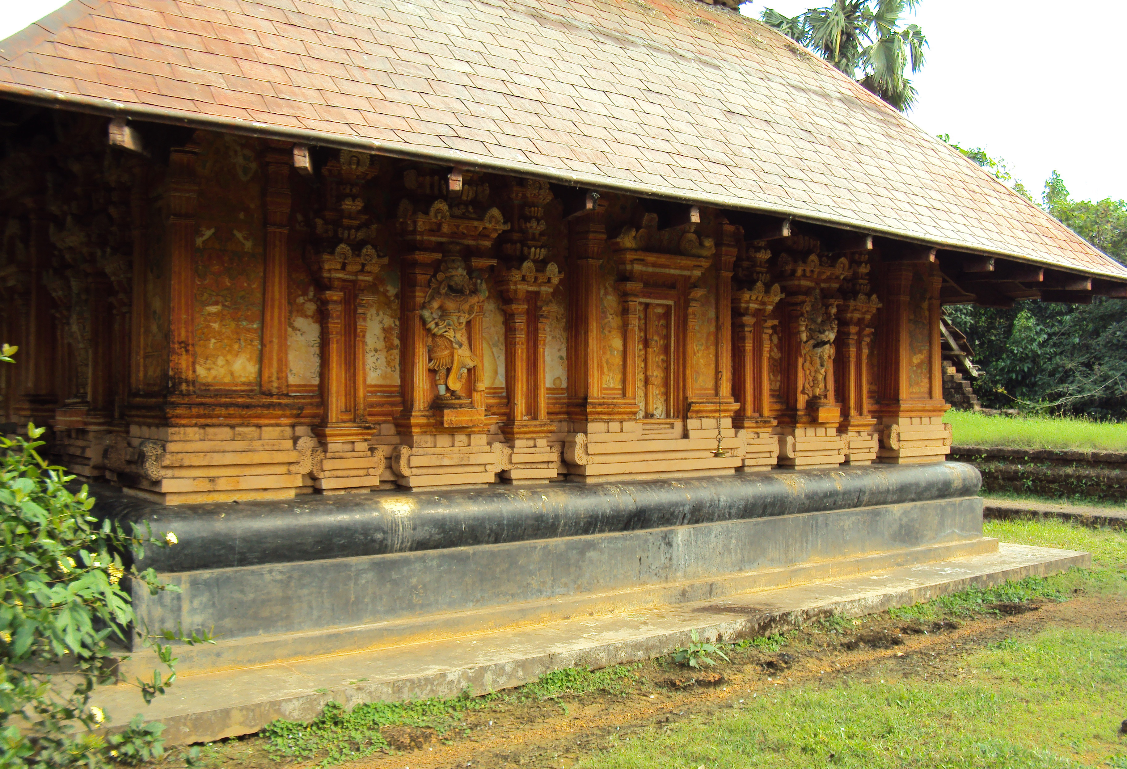 Thodikkalam siva temple - തൊടീക്കളം ക്ഷേത്രം